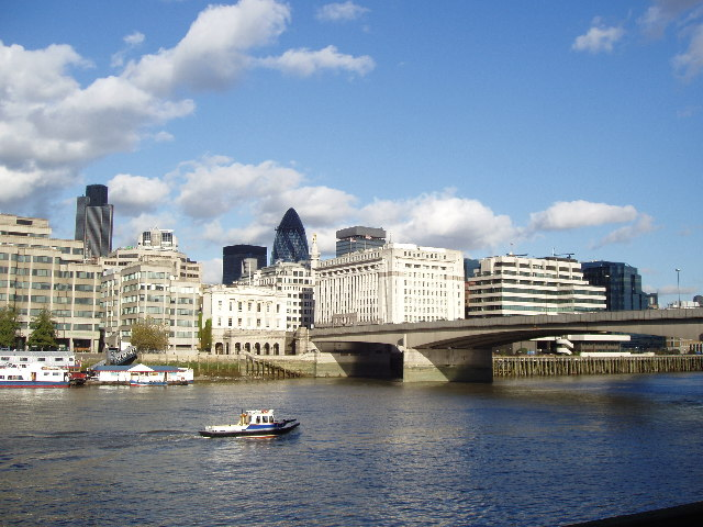 London Bridge, looking across the Thames from the Southwark side at the Bridge and the Fishmongers Hall next to it. The Gherkin can't be missed.